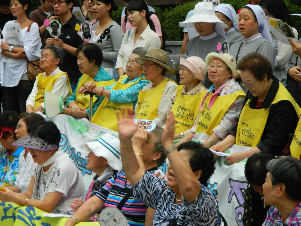 Comfort Women, rally in front of the Japanese Embassy in Seoul, August 2011 (2)